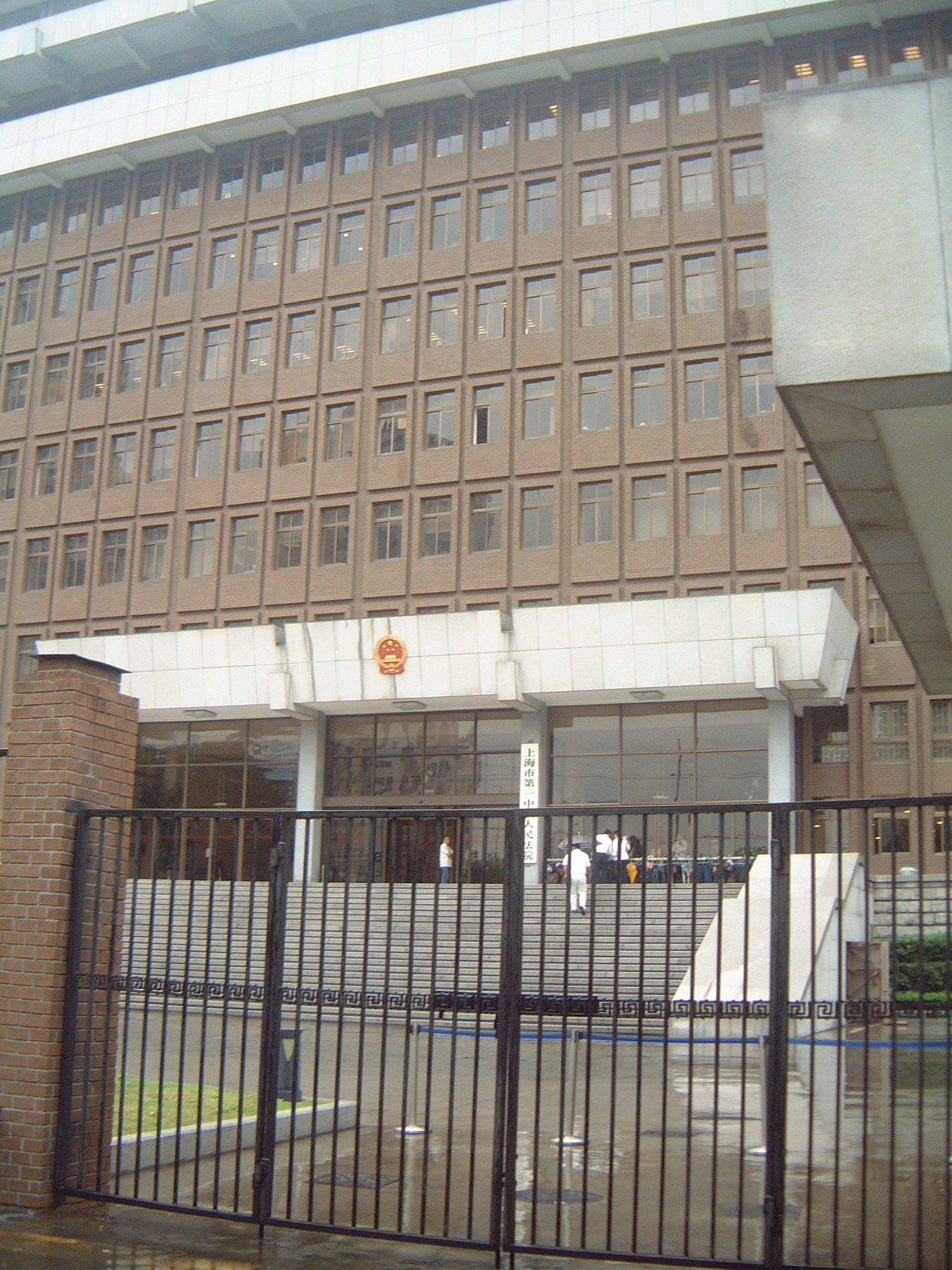 Shanghai No.1 Intermediate People's Court.